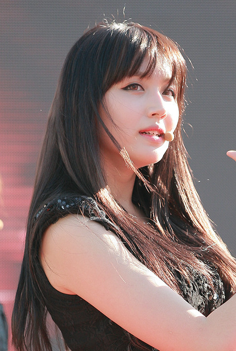 T-ae of Rania at the Hyosung Angel Village Festival, 4 October 2013